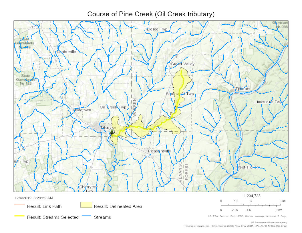 Map of the course of Pine Creek (Oil Creek tributary) in Warren and Crawford Counties, Pennsylvania.